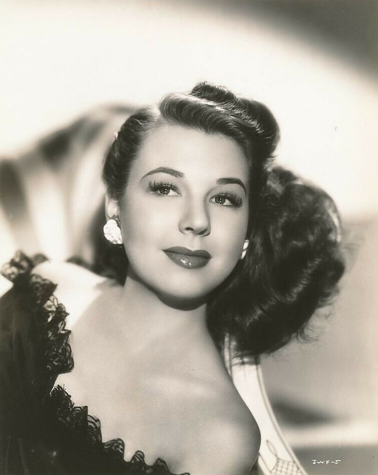 Glamor portrait of actress Jane Withers, 1940s